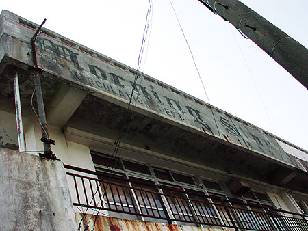 Former Morning Star newspaper building